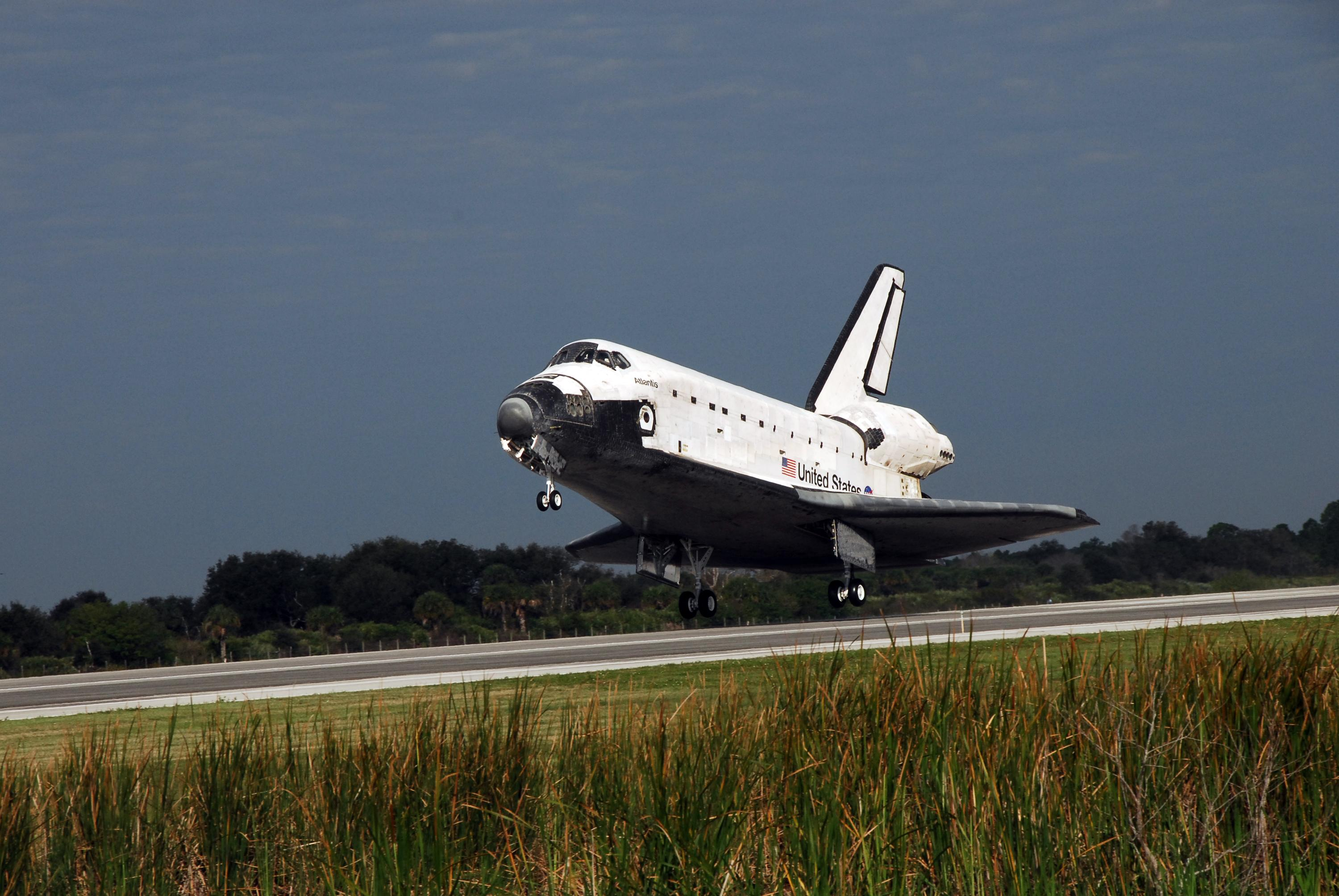 The space shuttle Atlantis approaches touch down on Runway 15 of the Shuttle Landing Facility at NASA's Kennedy Space Center. The shuttle landed on orbit 202 to complete the 13-day STS-122 mission. Main gear touchdown was 9:07:10 a.m. Nose gear touchdown was 9:07:20 a.m. Wheel stop was at 9:08:08 a.m. Mission elapsed time was 12 days, 18 hours, 21 minutes and 44 seconds. During the mission, Atlantis' crew installed the new Columbus laboratory, leaving a larger space station and one with increased science capabilities. The Columbus Research Module adds nearly 1,000 cubic feet of habitable volume and affords room for 10 experiment racks, each an independent science lab.